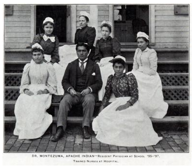 Caption: Dr.Montezuma, Apache Indian-Resident Physician at School at Carlisle Indian School 1895-1897. Trained nurses at hospital." Other information No.